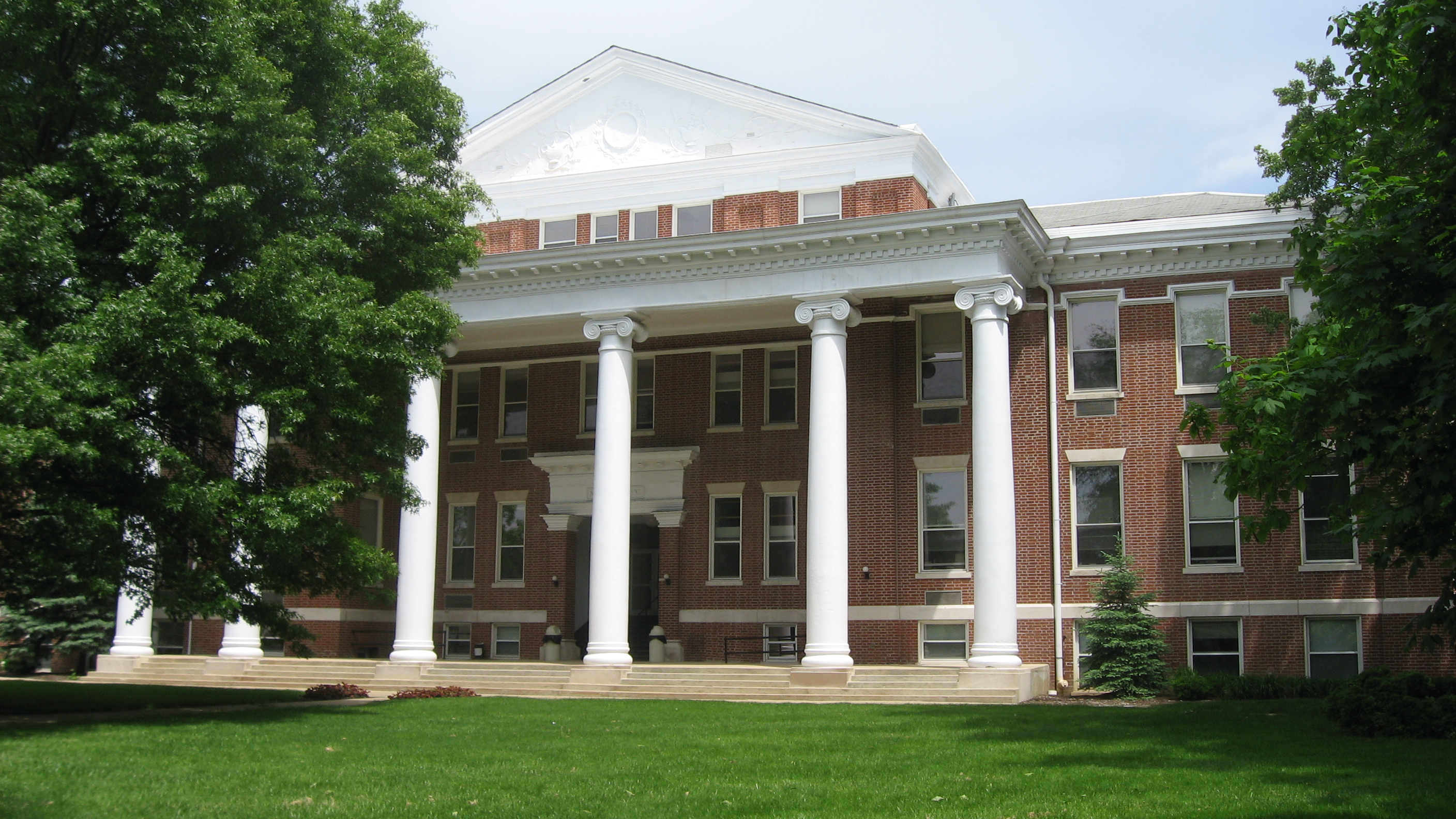 Front of Good Hall, located on the southeastern corner of the intersection of Otterbein and Hanna Avenues on the campus of the University of Indianapolis in Indianapolis, Indiana, United States. Built in 1904, it is listed on the National Register of Historic Places.